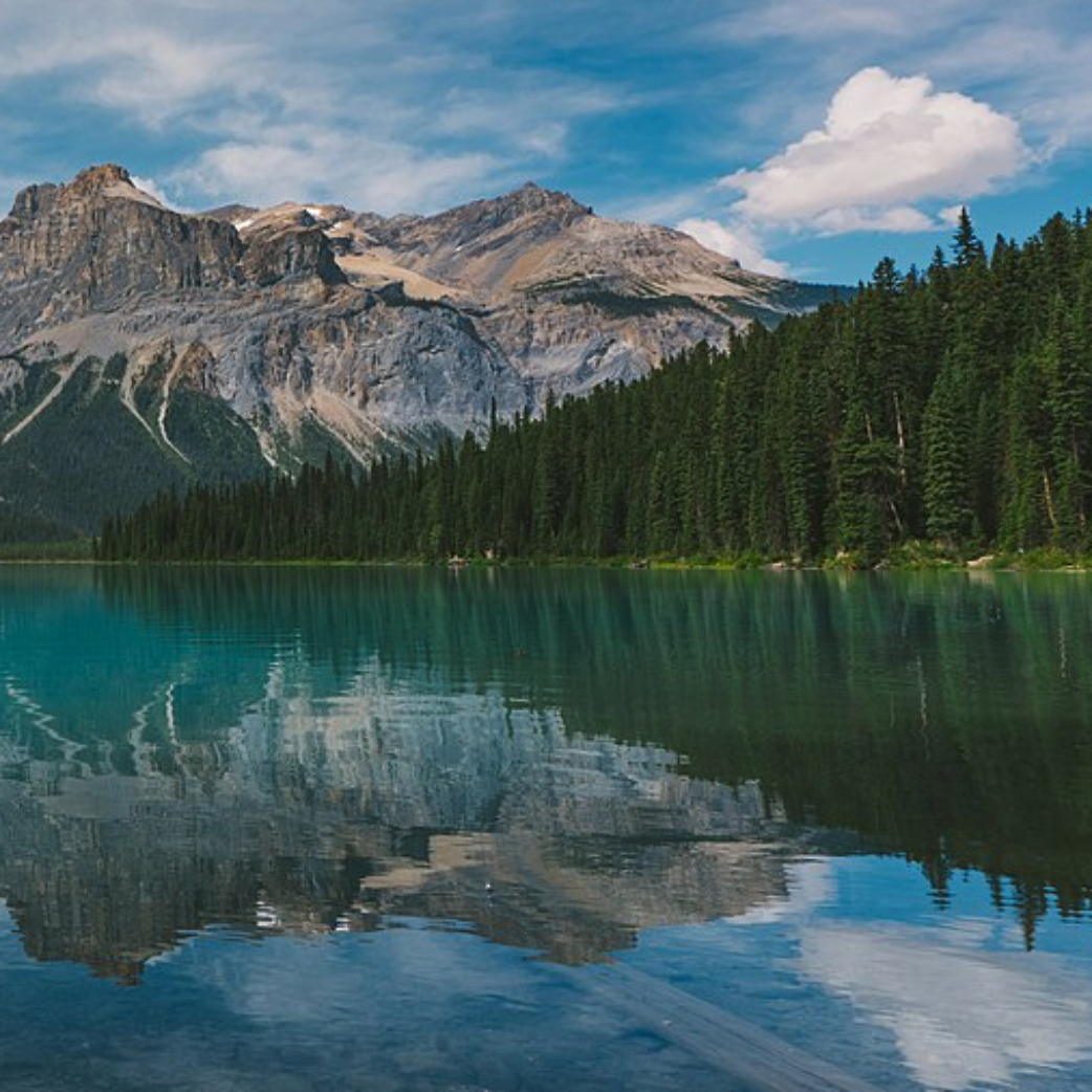 Emerald Lake and Michael Peak, Yoho National Park, Canada